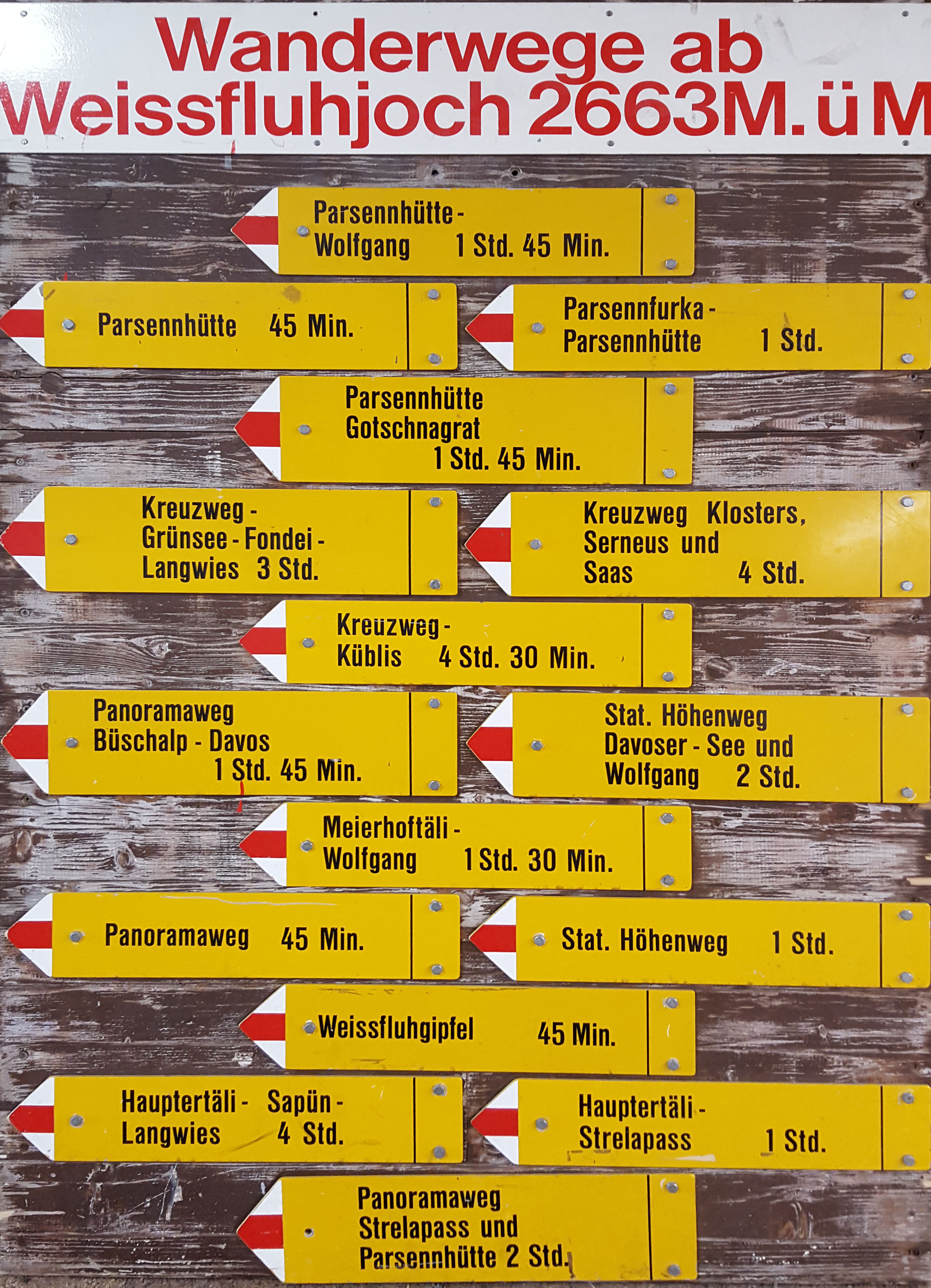 Fingerpost on Weissfluhjoch, Davos, Arosa, Klosters-Serneus, Grisons, Switzerland